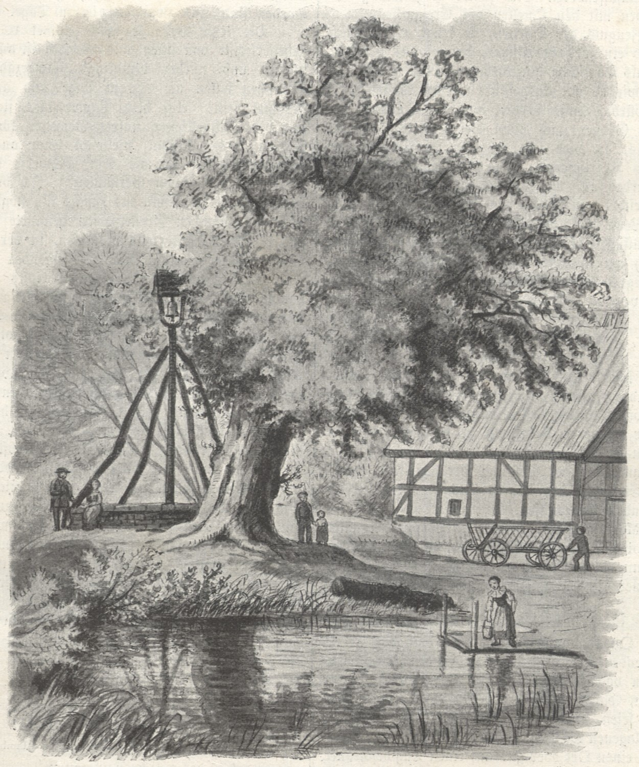 Under the bell by Luise Bothe. Place of farmer's council Thing Site of Harlinghausen district Minden-Lübbecke